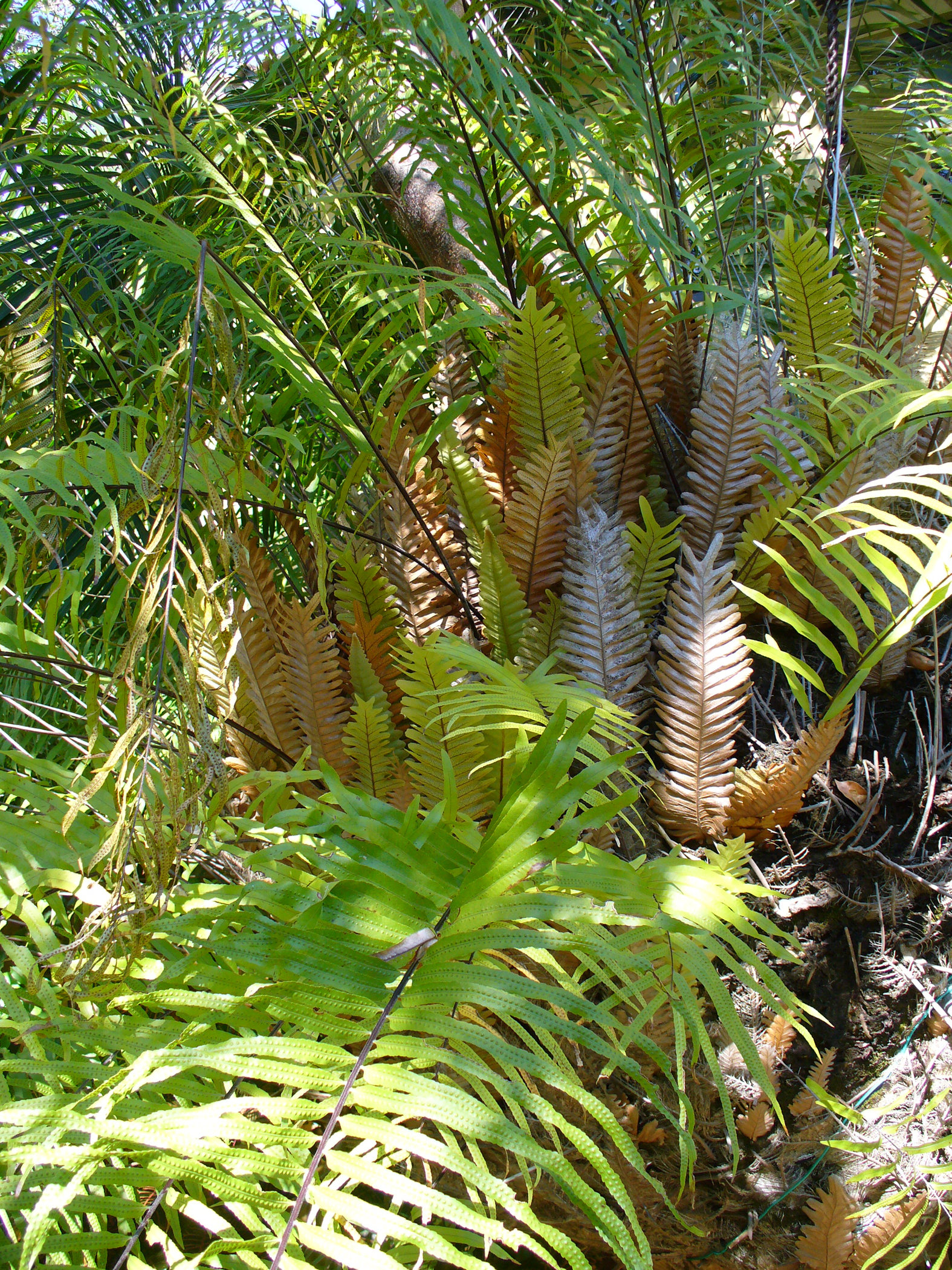 cultivated, private garden, South Miami, Florida, USA